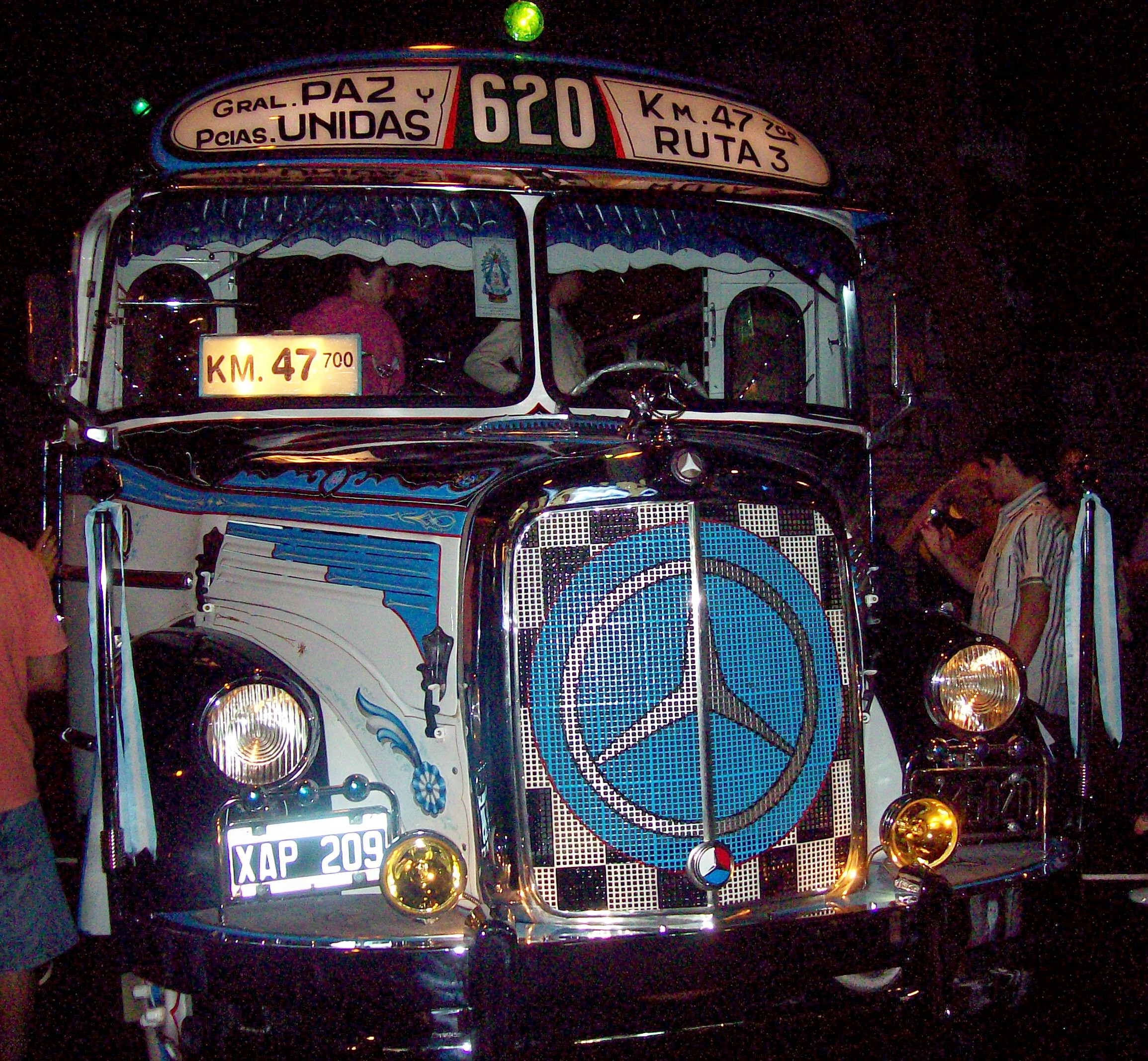 Bus (reg. XAP 209, #300) with Mercedes-Benz LO-911 chassis in Buenos Aires, Argentina. Colectivo, line 620, Nuevo Ideal S.A. operator.